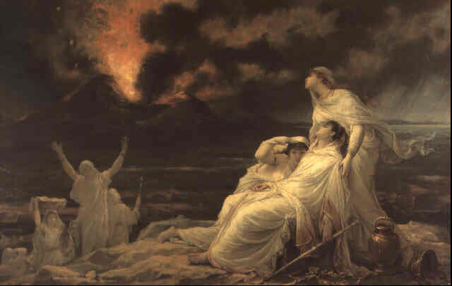 Herculaneum by Leroux